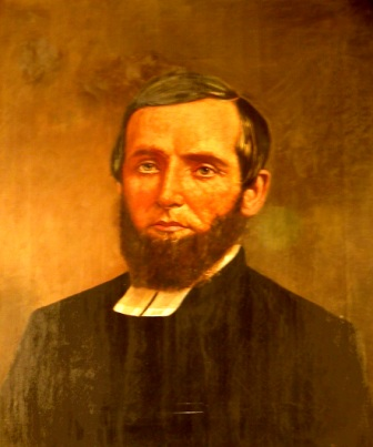 a portrait of Jonas Swensson